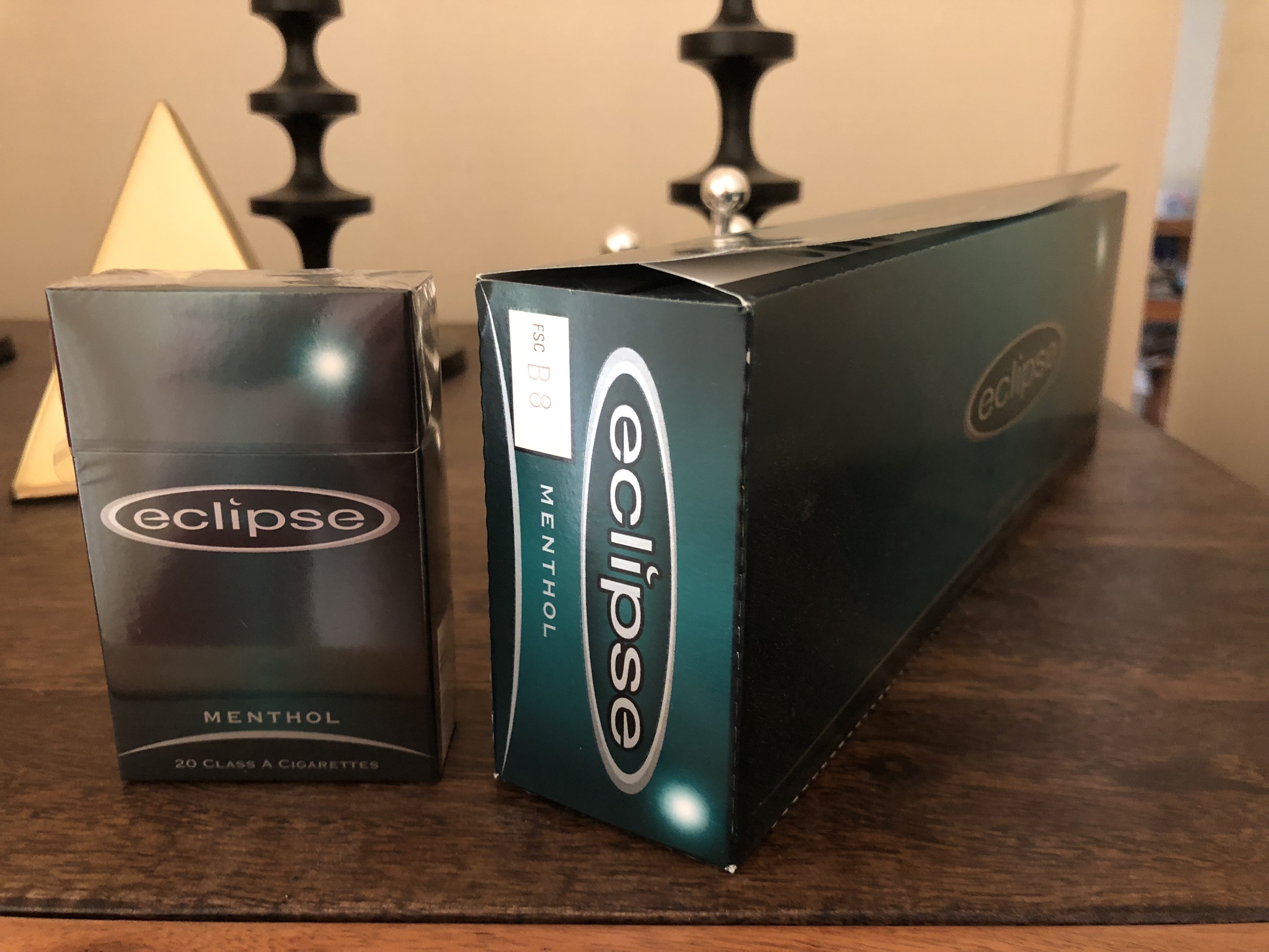 Eclipse Menthol carton, pack; manufacturing date of Feb 2018.